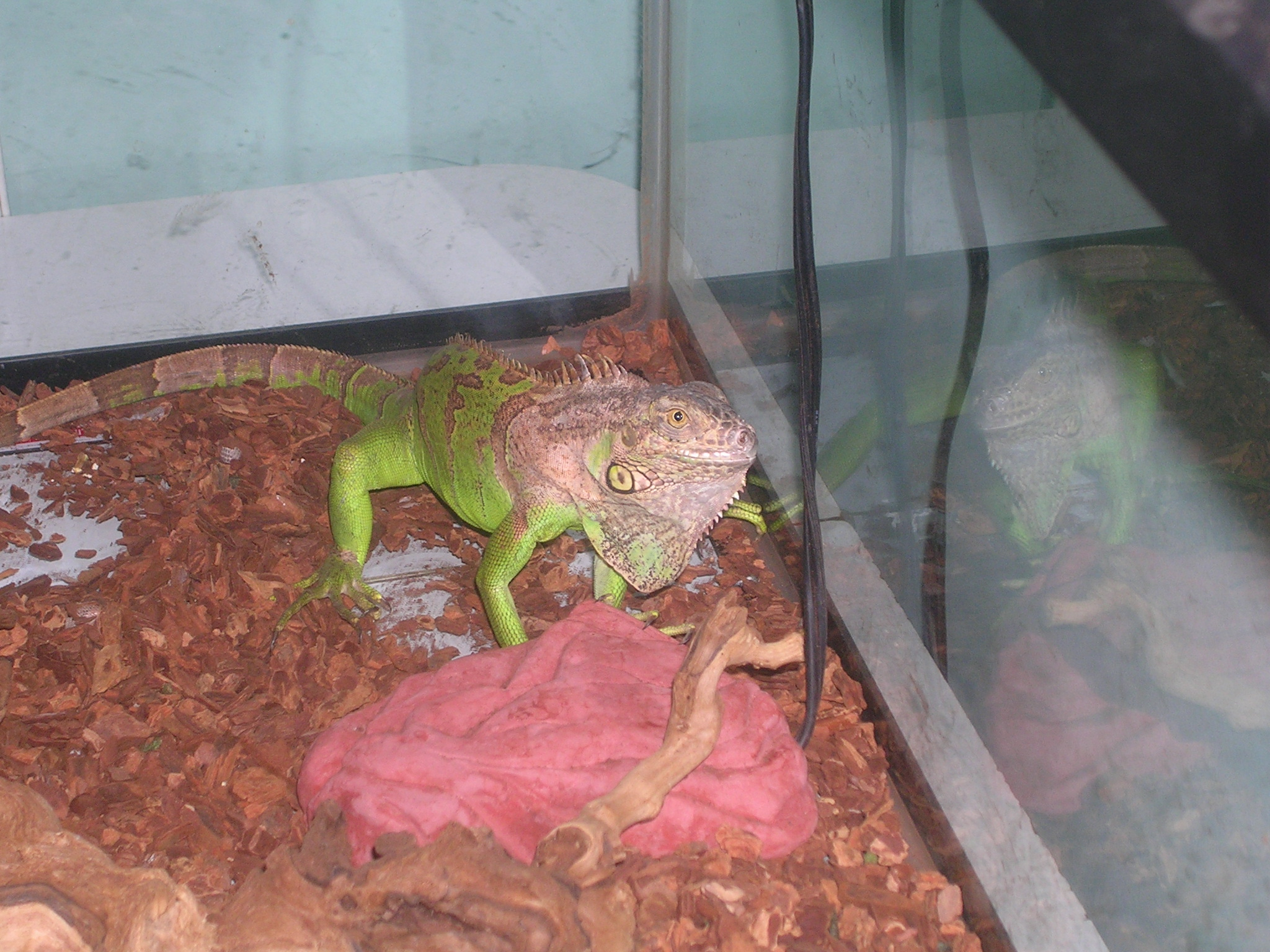 A 1-year-old male green iguana